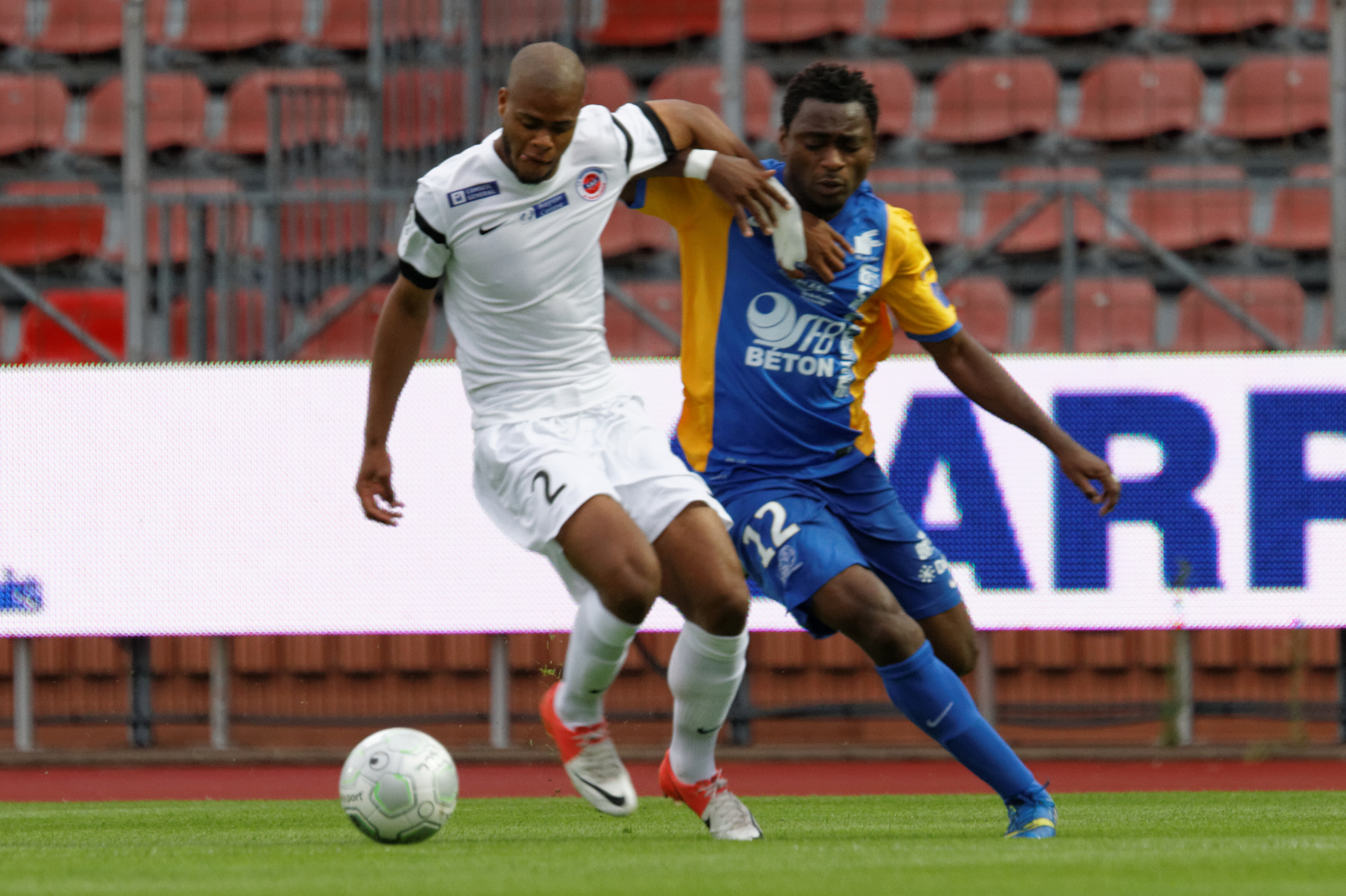 Créteil vs Châteauroux, 8th August 2014.